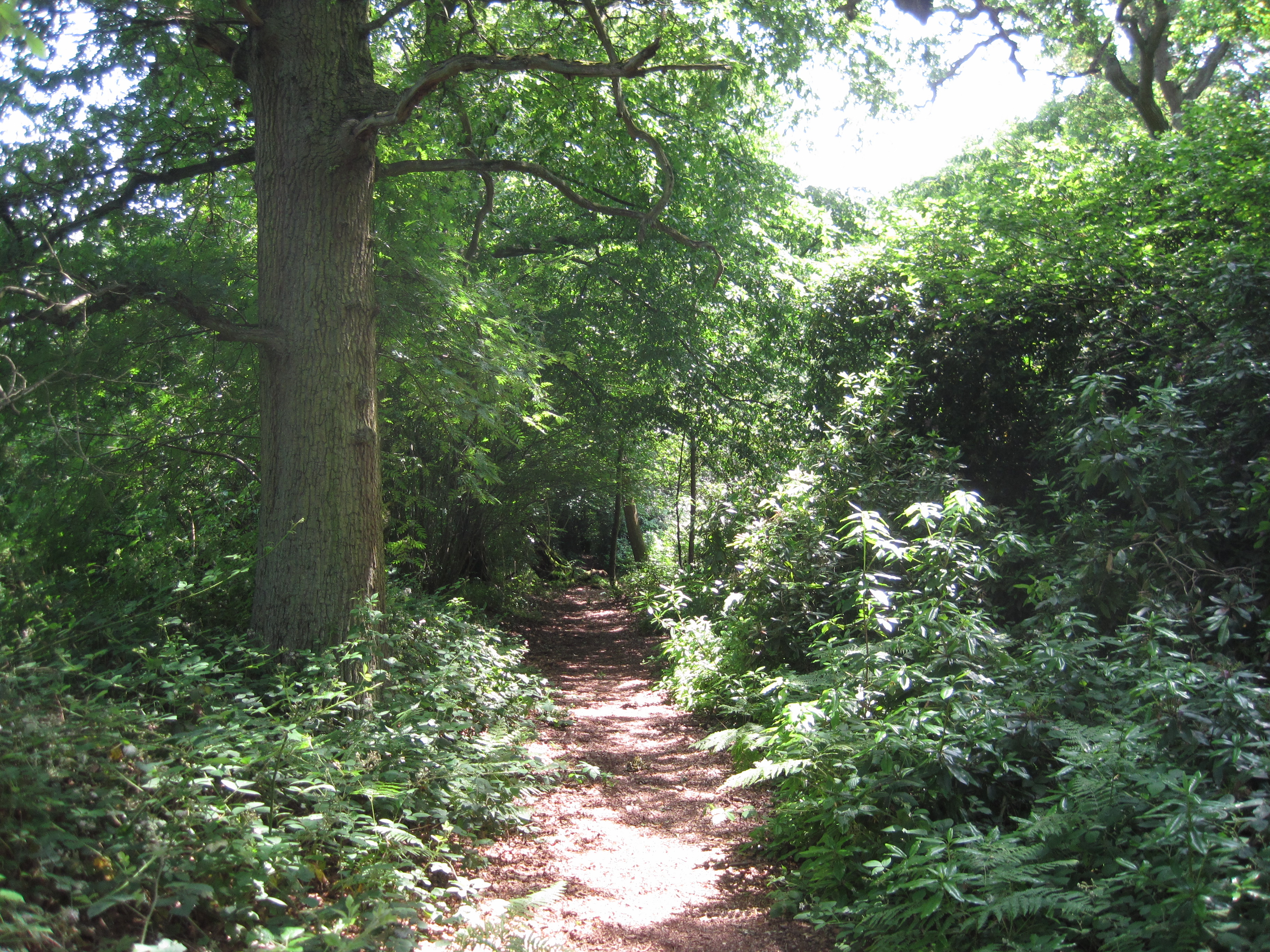 Barnet Gate Wood, Arkley, Barnet, London